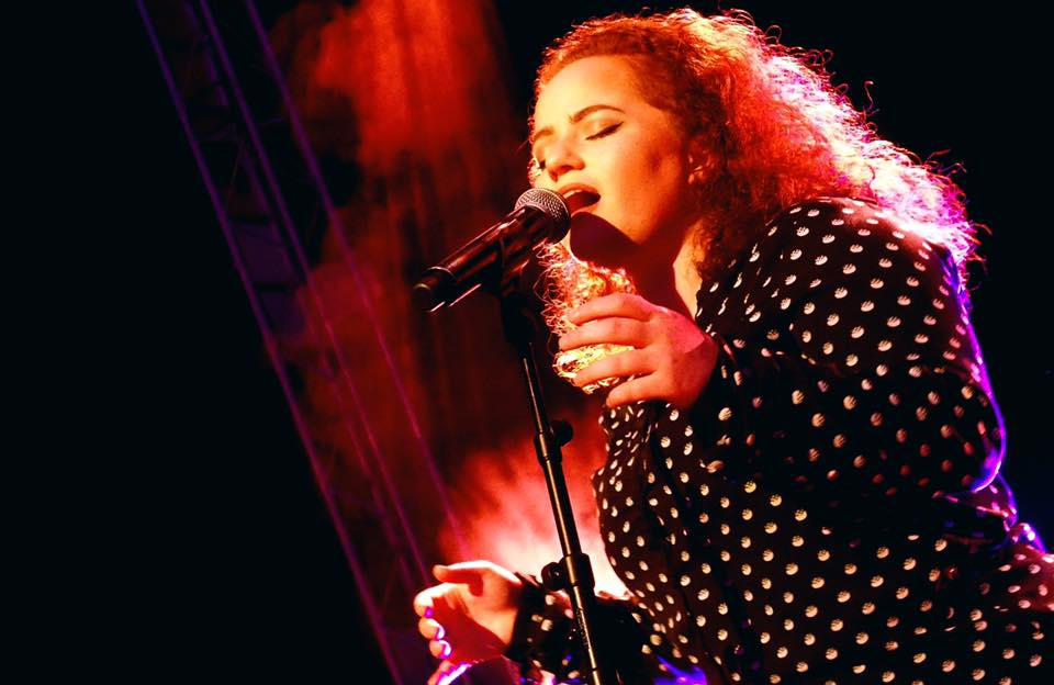 Áine Cahill performing live at Eurosonic Nooderslag 2017